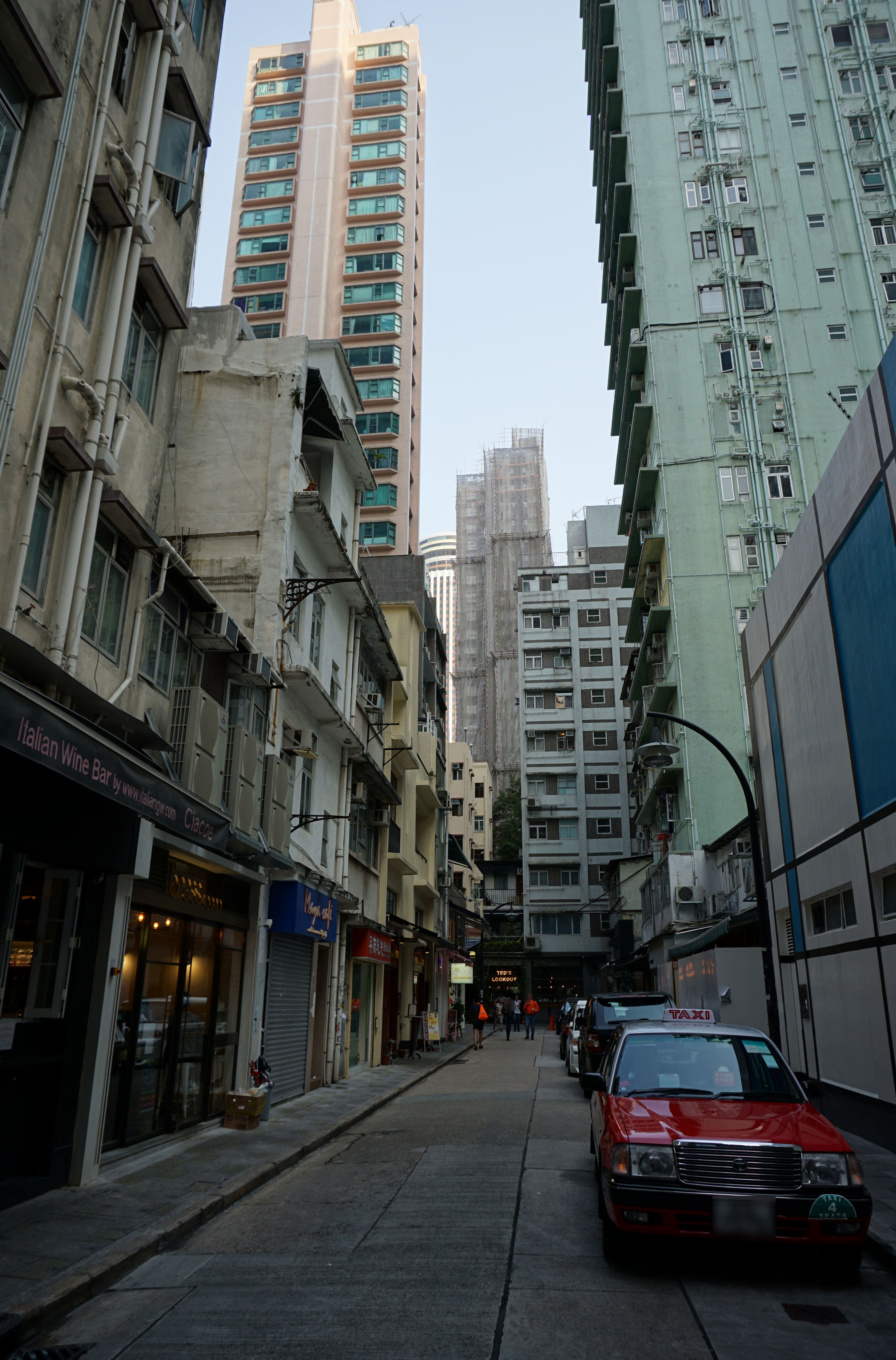 Moon Street in Wan Chai, Hong Kong.